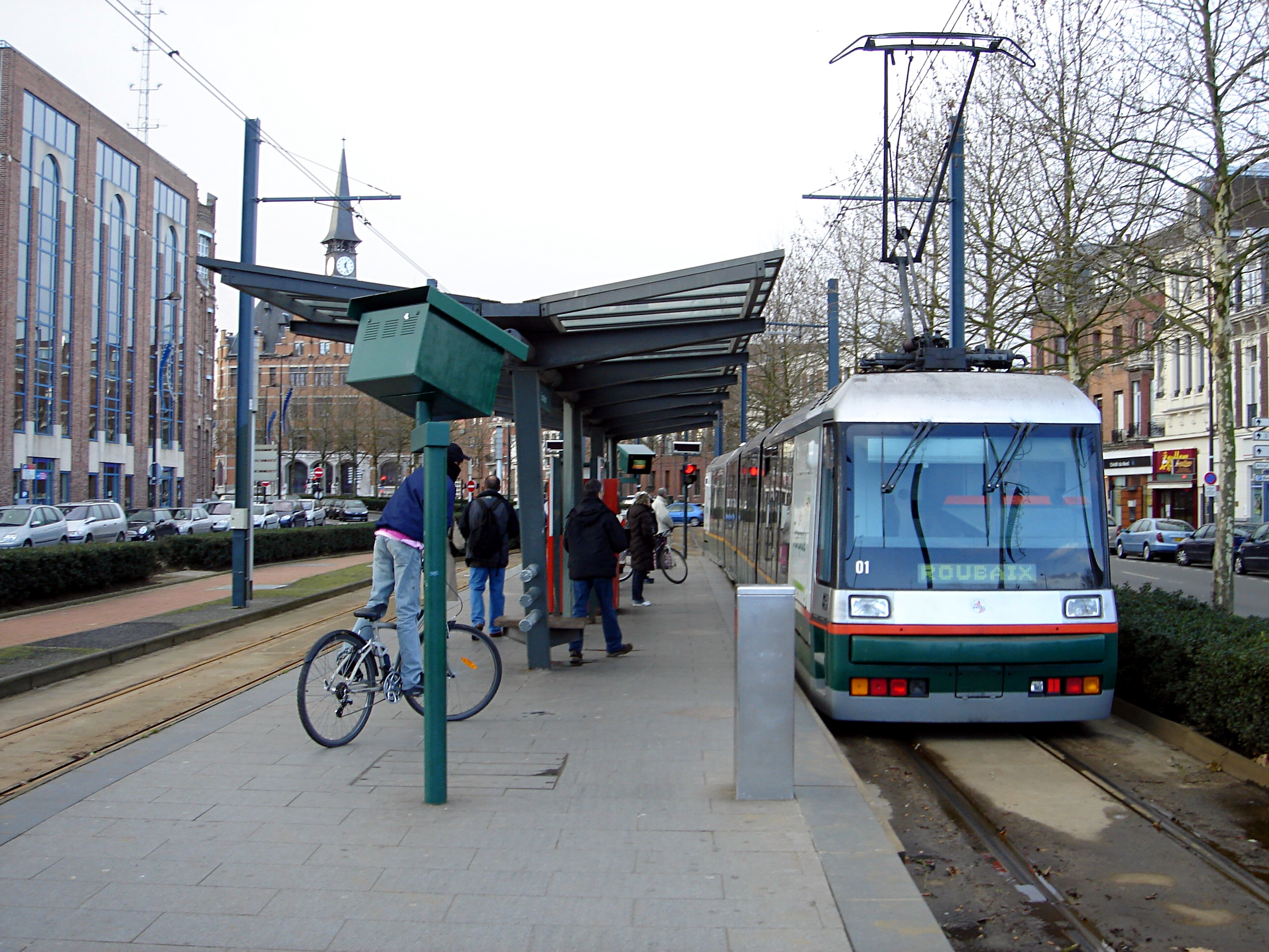 Tram in Roubaix (Lille metropolitan area), France